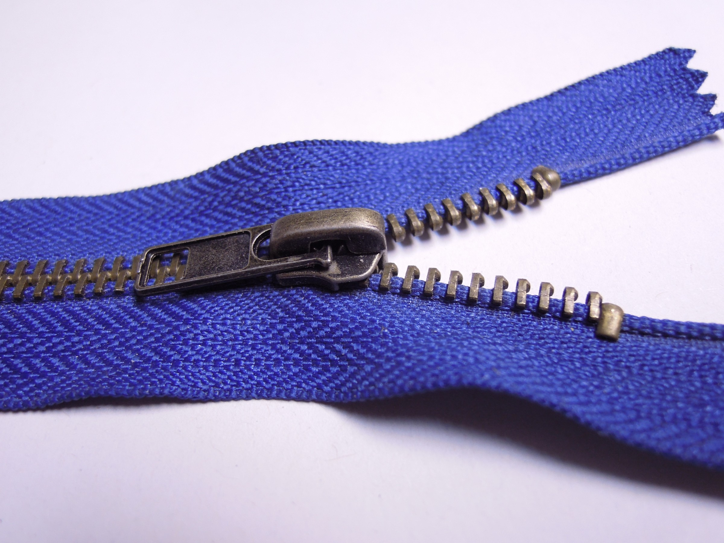 Zipper - metal - blue